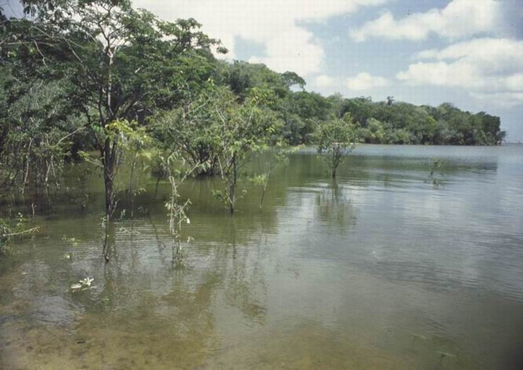 Japurá River created by he:משתמש:בן הטבע